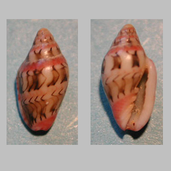 Species: Marginella festiva Kiener, 1841 Specimen: Patrick Lepetit collection data: in sand, 5-7m deep Almadies, Dakar. Senegal L 8.0mm